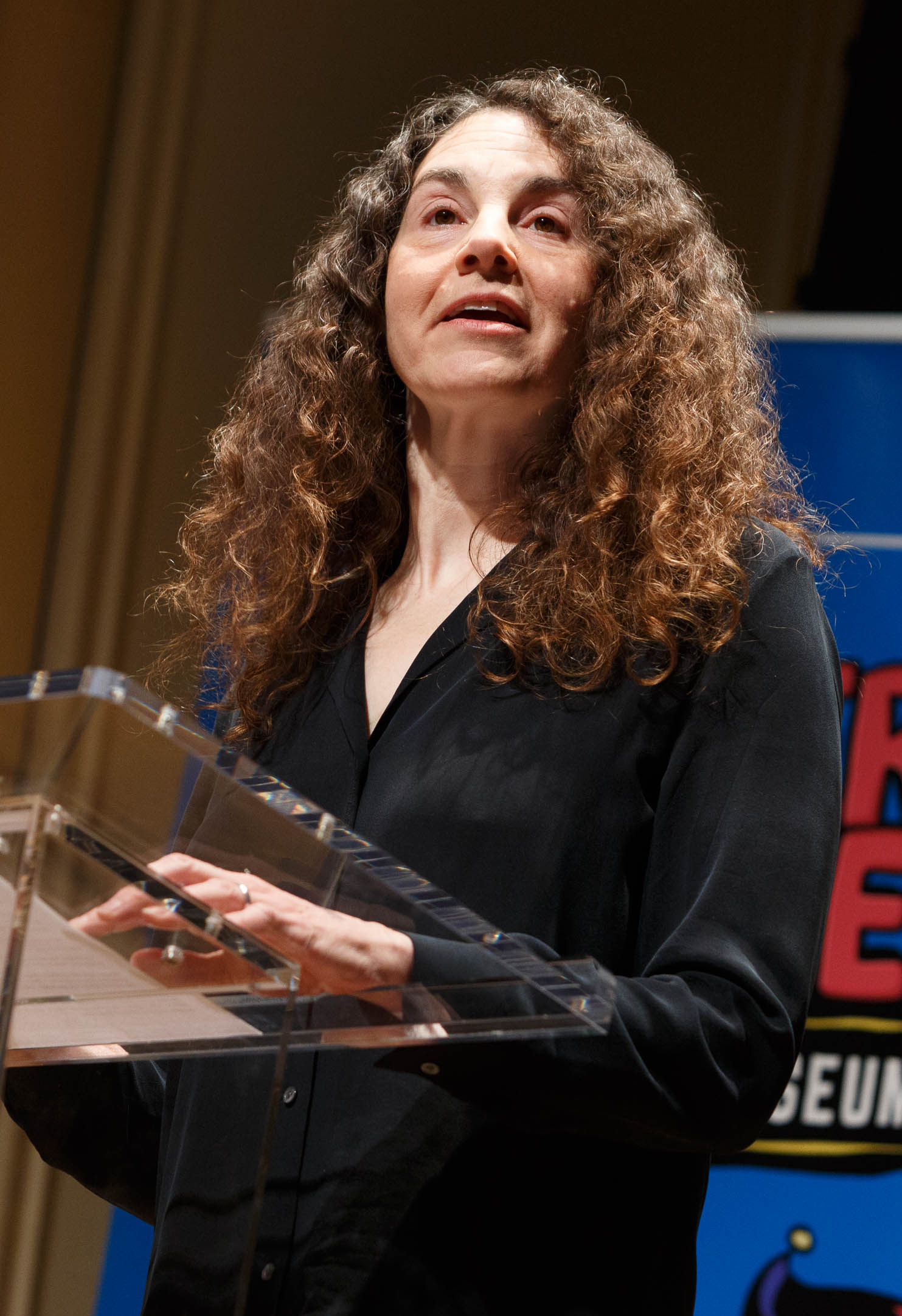 Linda Simensky of PBS Kids introduces author Brad Meltzer and illustrator Chris Eliopoulos at the "National Book Festival Presents" series event with them at the Coolidge Auditorium, November 8, 2019. Photo by Shawn Miller/Library of Congress. Note: Privacy and publicity rights for individuals depicted may apply.